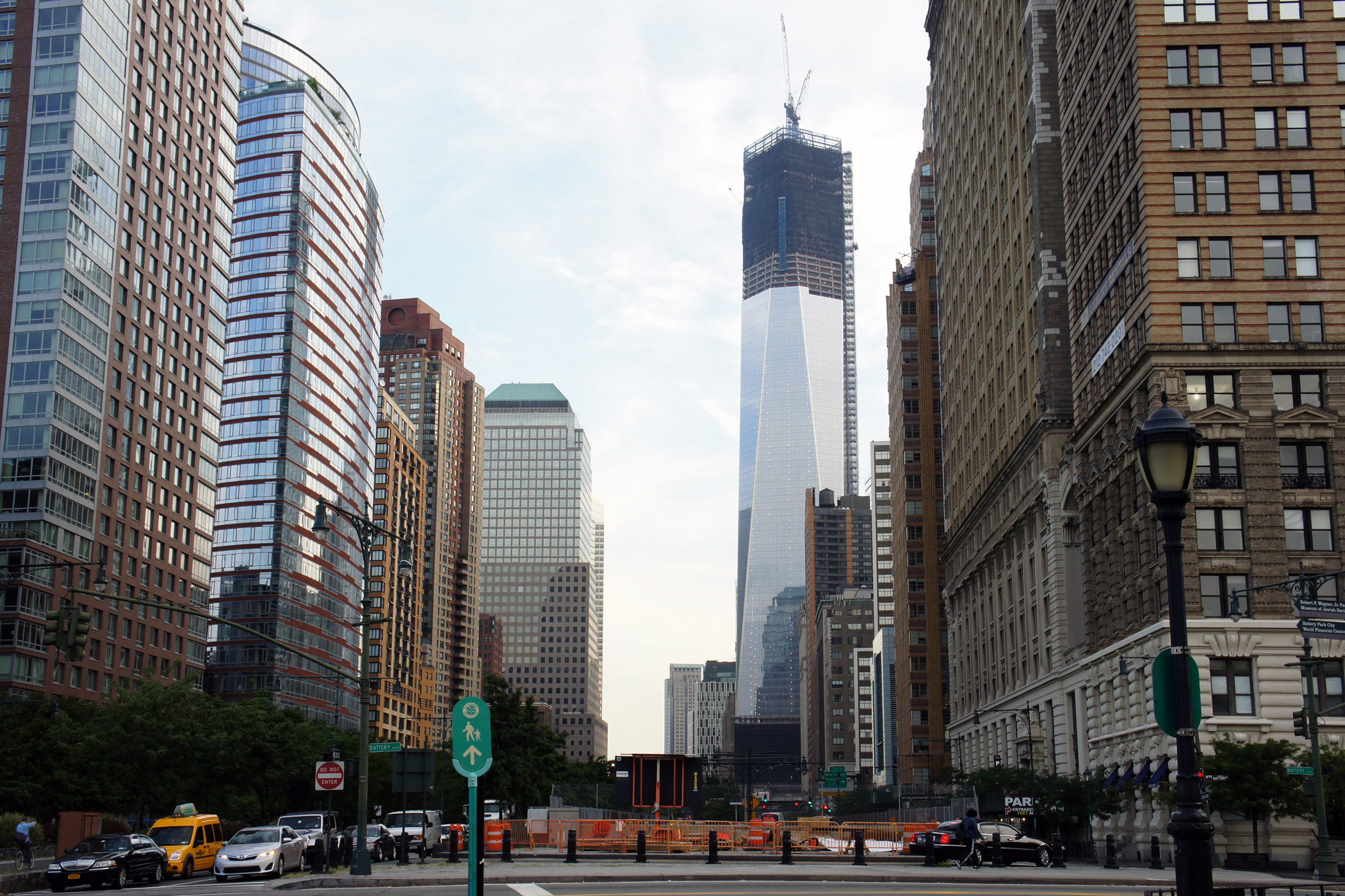 One World Trade Center tower under construction as seen from Battery Park, NYC